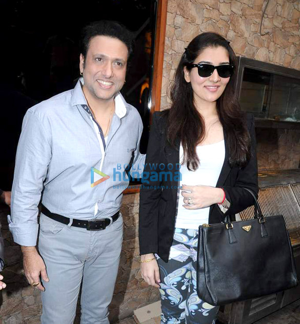 Govinda with daughter Narmmadaa at Bright Advertising Awards announcement